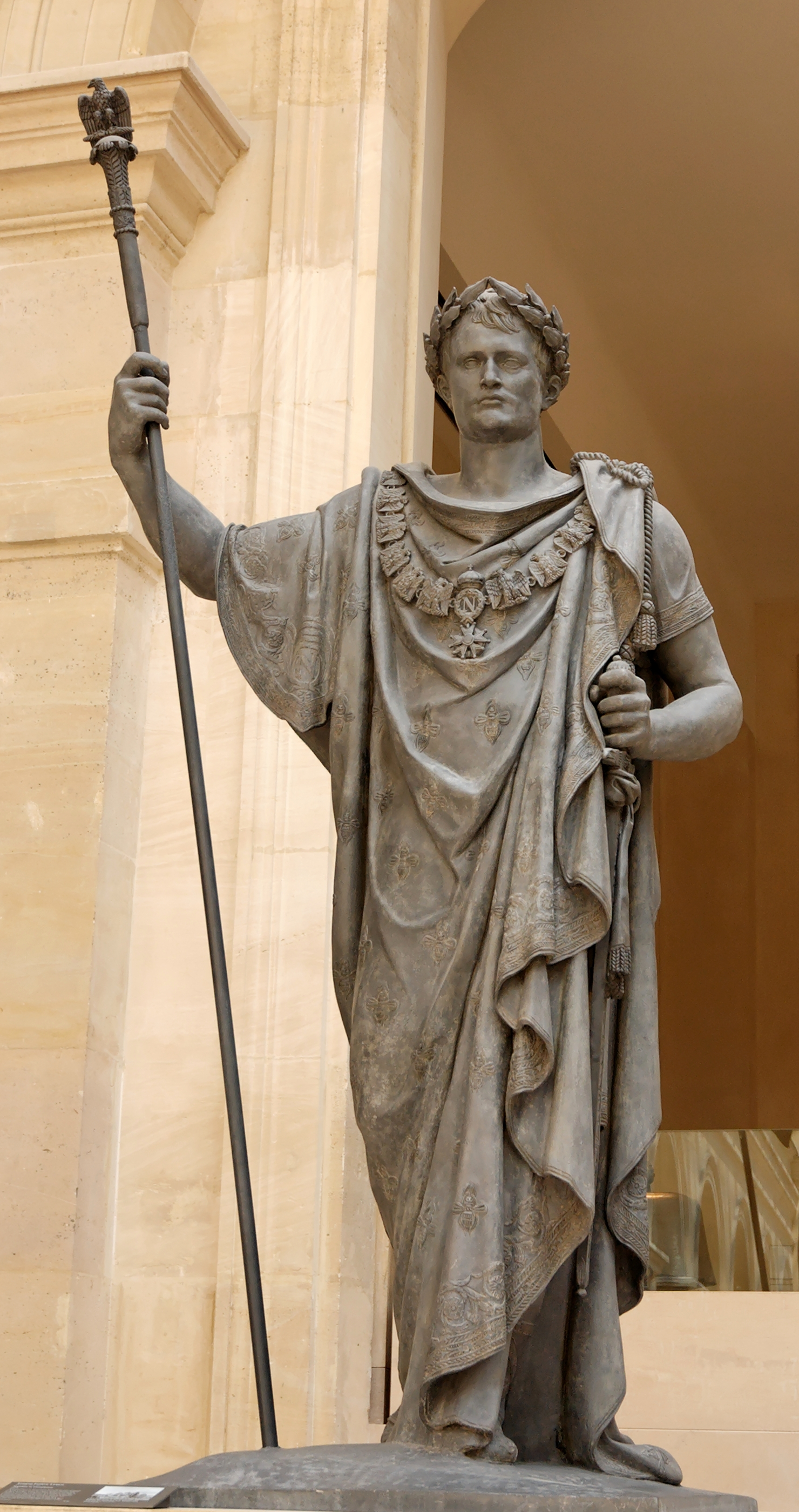 Napoléon en triomphateur (Napoleon as a triumphant victor). Lead. Commissionned by Vivant Denon for the Carrousel Arch of Triumph, the statue was refused by Napoleon I and brought back shortly after the inauguration in 1808.